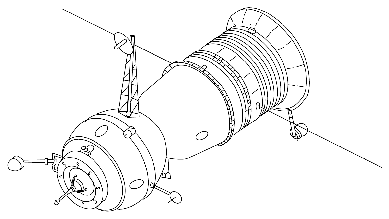 Upgraded Soyuz 7K-T version capable of carrying 2 cosmonauts with Sokol space suits (after the Soyuz-11 accident).